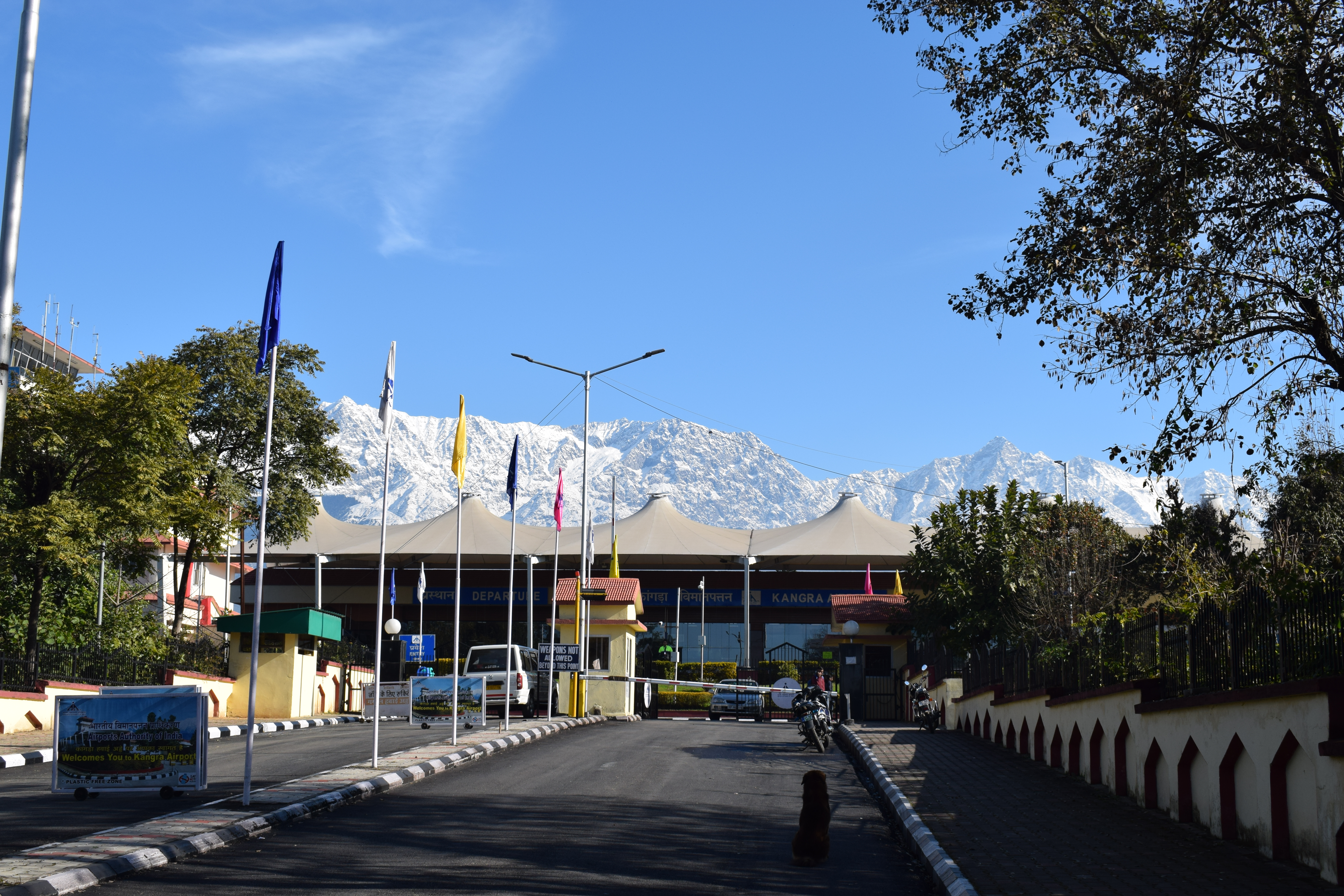 Kangra/Dharamsala airport, Code: DHM, in Gagal, Himachal Pradesh.